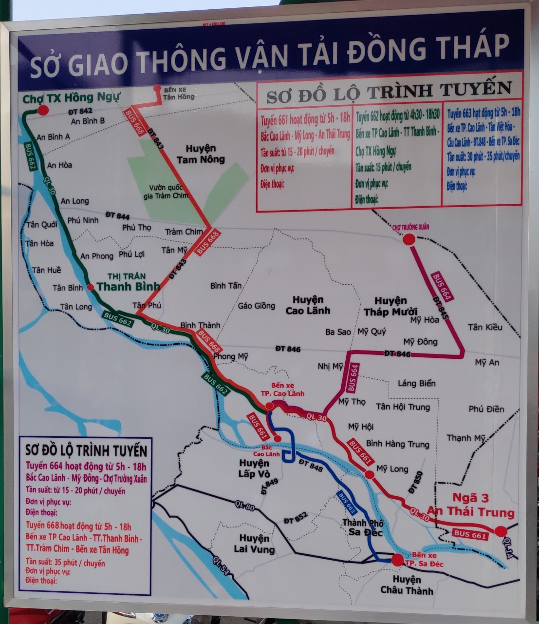 Dong Thap bus map took at a bus stop